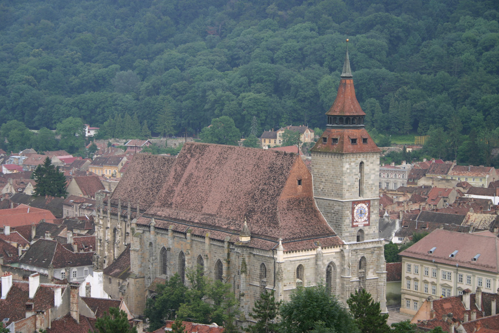 Black Church (Biserica Neagra), Braşov, Romania. Exterior view. Taken July 2005 from Warthe Hill.